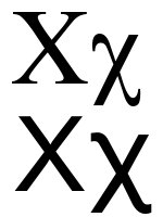 Greek letter chi.